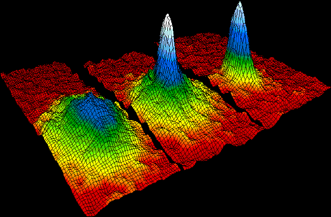 Bose–Einstein condensate — In the July 14, 1995 issue of Science Magazine, researchers from JILA reported achieving a temperature far lower than had ever been produced before and creating an entirely new state of matter predicted decades ago by Albert Einstein and Indian physicist Satyendra Nath Bose. Cooling rubidium atoms to less than 170 billionths of a degree above absolute zero caused the individual atoms to condense into a "superatom" behaving as a single entity. The graphic shows three-dimensional successive snap shots in time in which the atoms condensed from less dense red, yellow and green areas into very dense blue to white areas. JILA is jointly operated by NIST and the University of Colorado at Boulder.